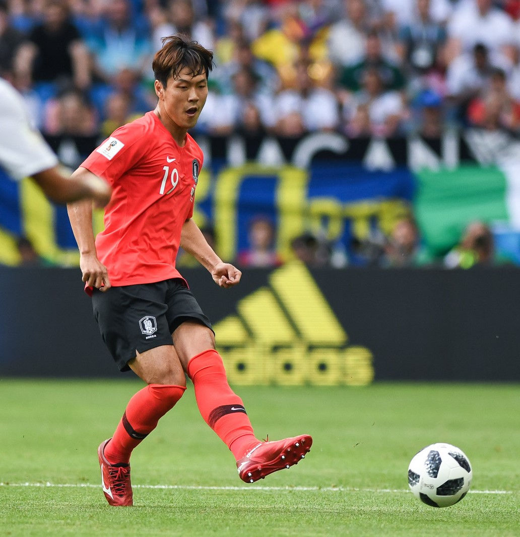 Mexico and South Korea match at the FIFA World Cup 2018-06-23